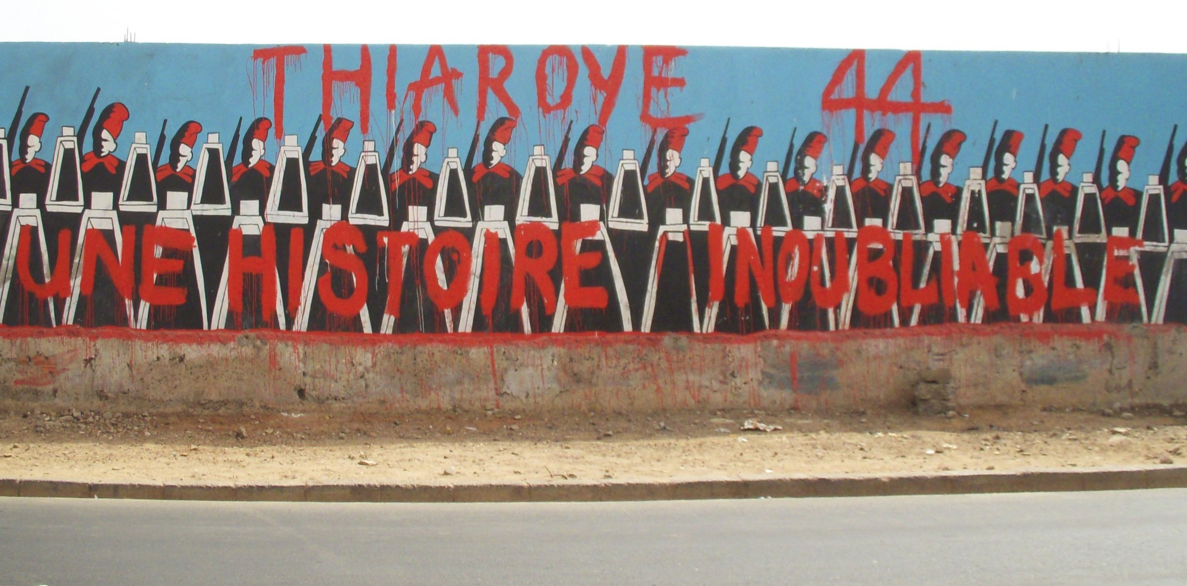 A mural in Dakar Senegal commemerating the Thiaroye Massacre of 1944.DSCN1029